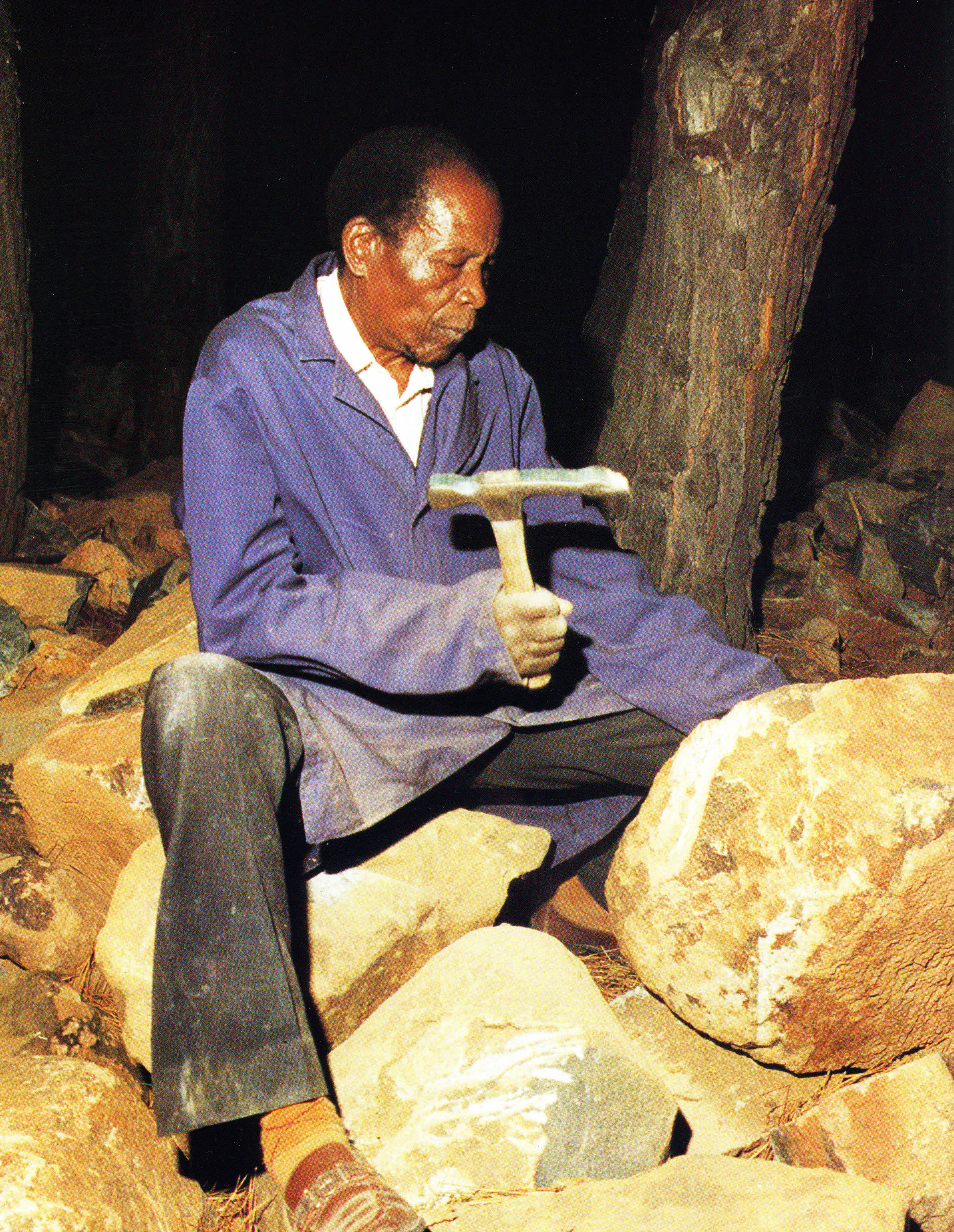 Photograph of Henry Munyaradzi (Shona), Zimbabwean sculptor